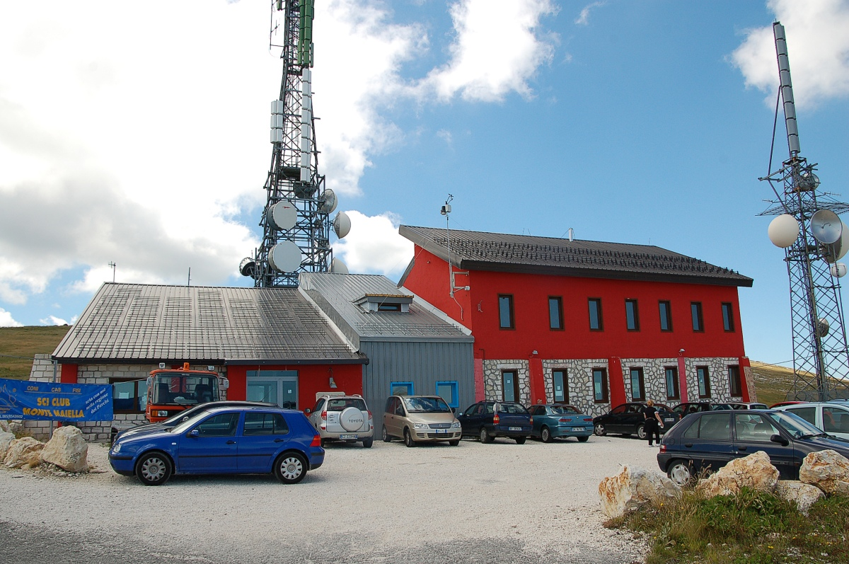 Blockhaus (Abruzzo) Majella National Park